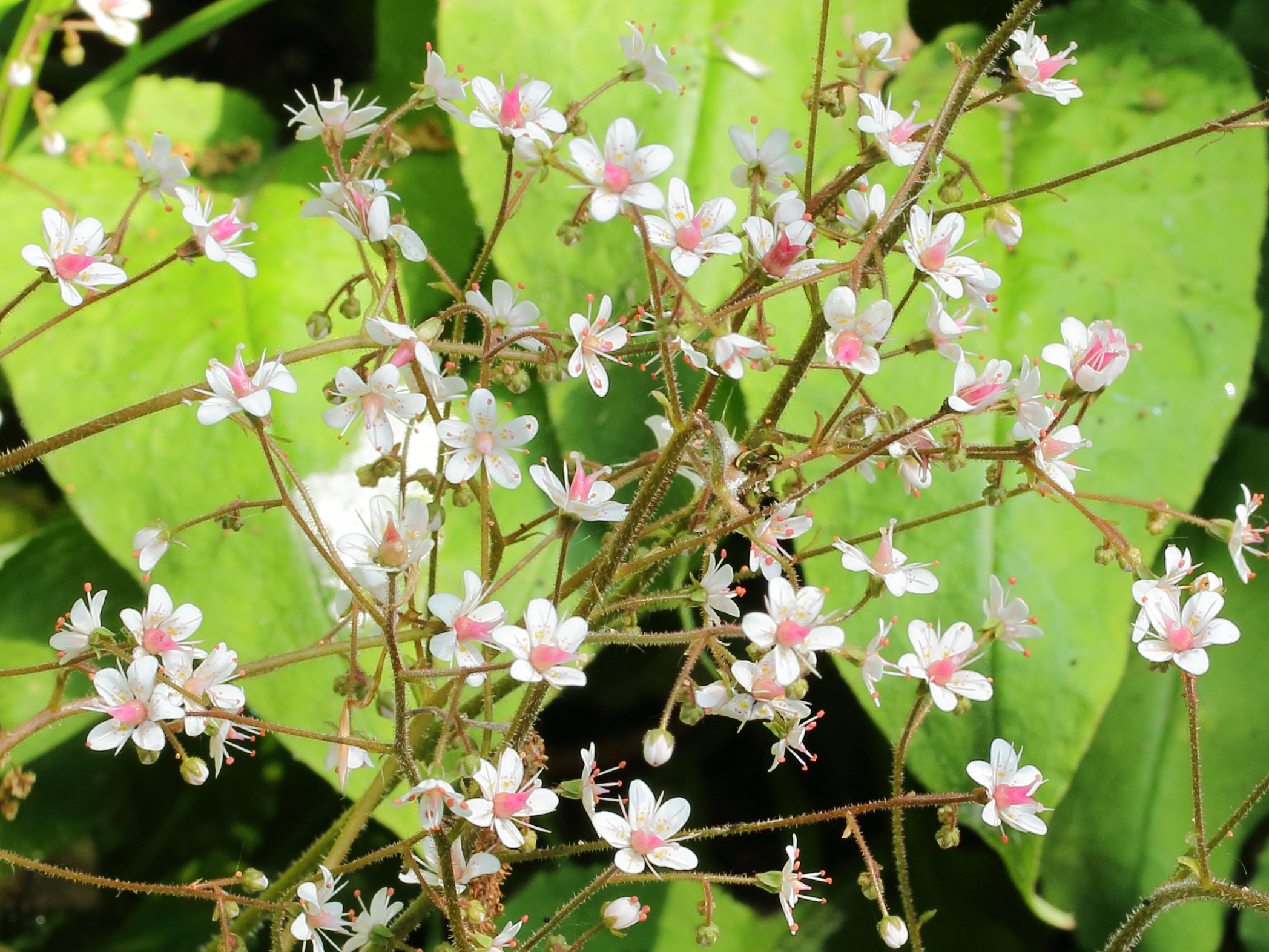 Fragile flowers of Saxifraga x urbium.